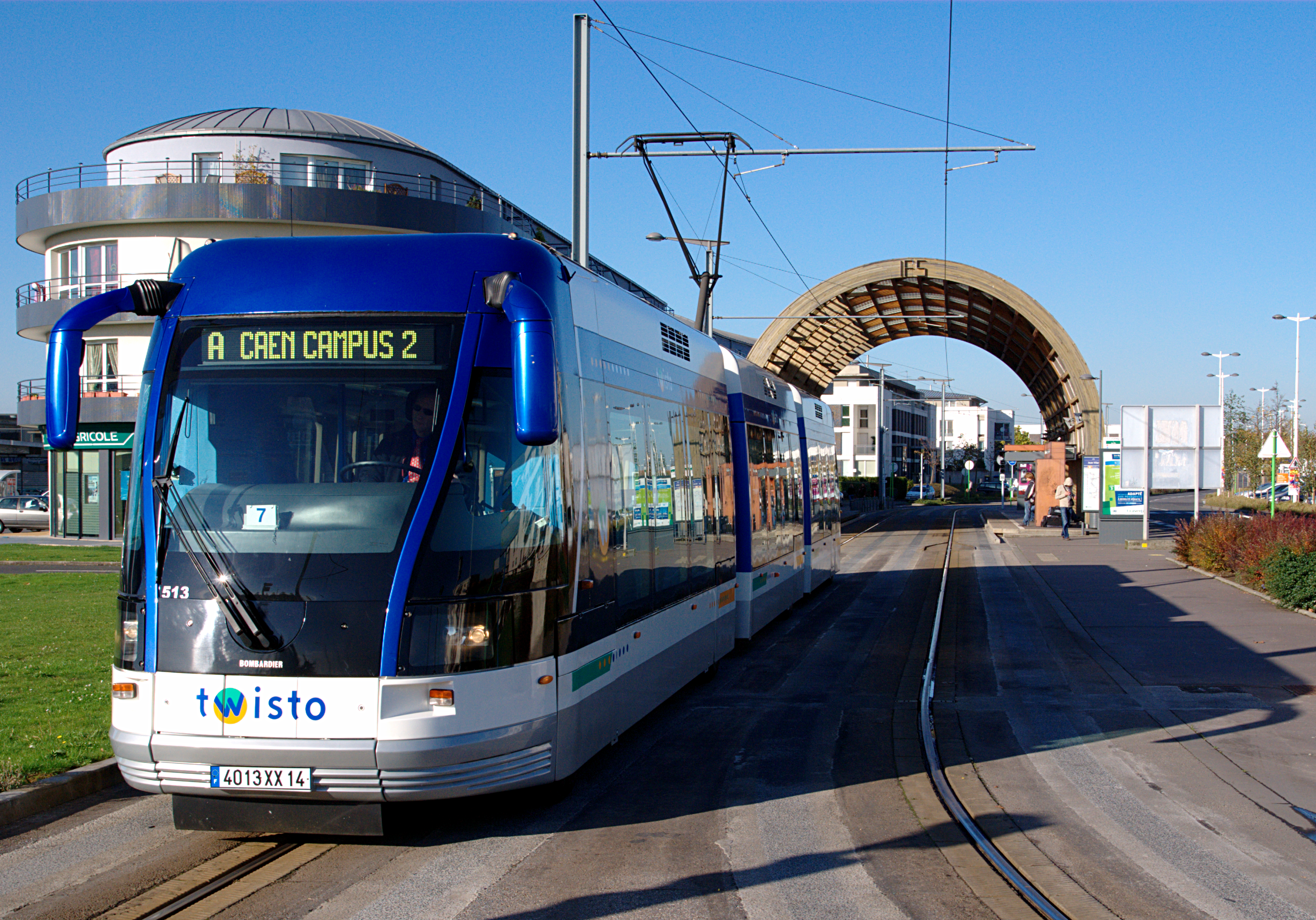 Guided trolleybuses in Caen (Calvados, France) – Jean Vilar tram stop in Ifs, terminus of line A.